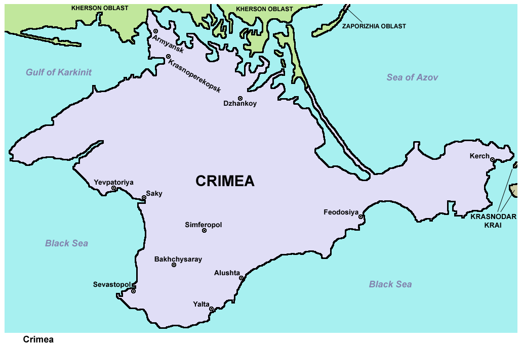 Politically neutral map of the disputed region of Crimea.